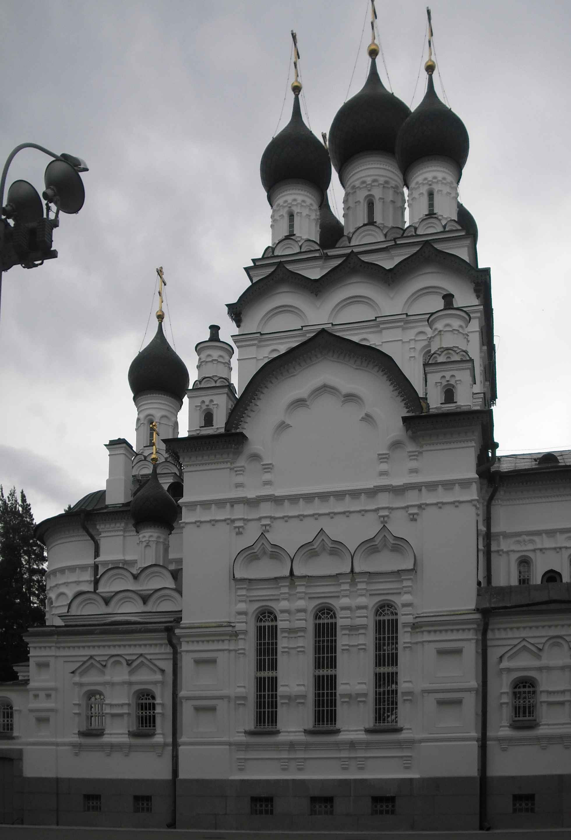 Zelenogorsk (Russia)